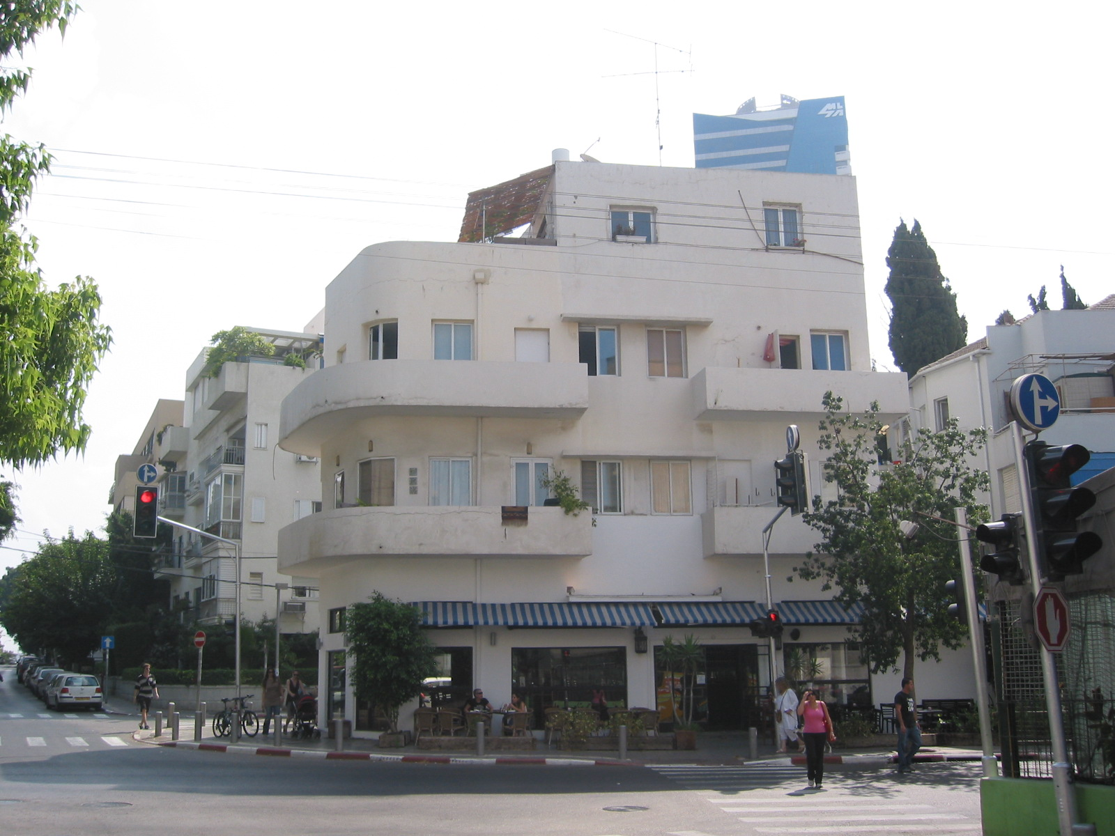 International Style House in 58 Yehuda Halevi Street/52 Maze Street/13 Goldberg Street, Tel Aviv